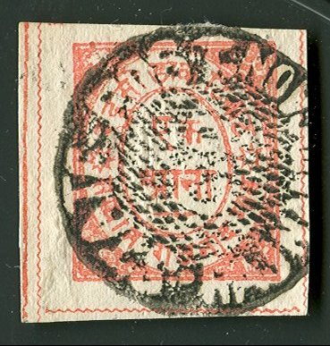 This is my scan of a stamp of Nandgaon, the 2 anna rose of 1893, postally used.